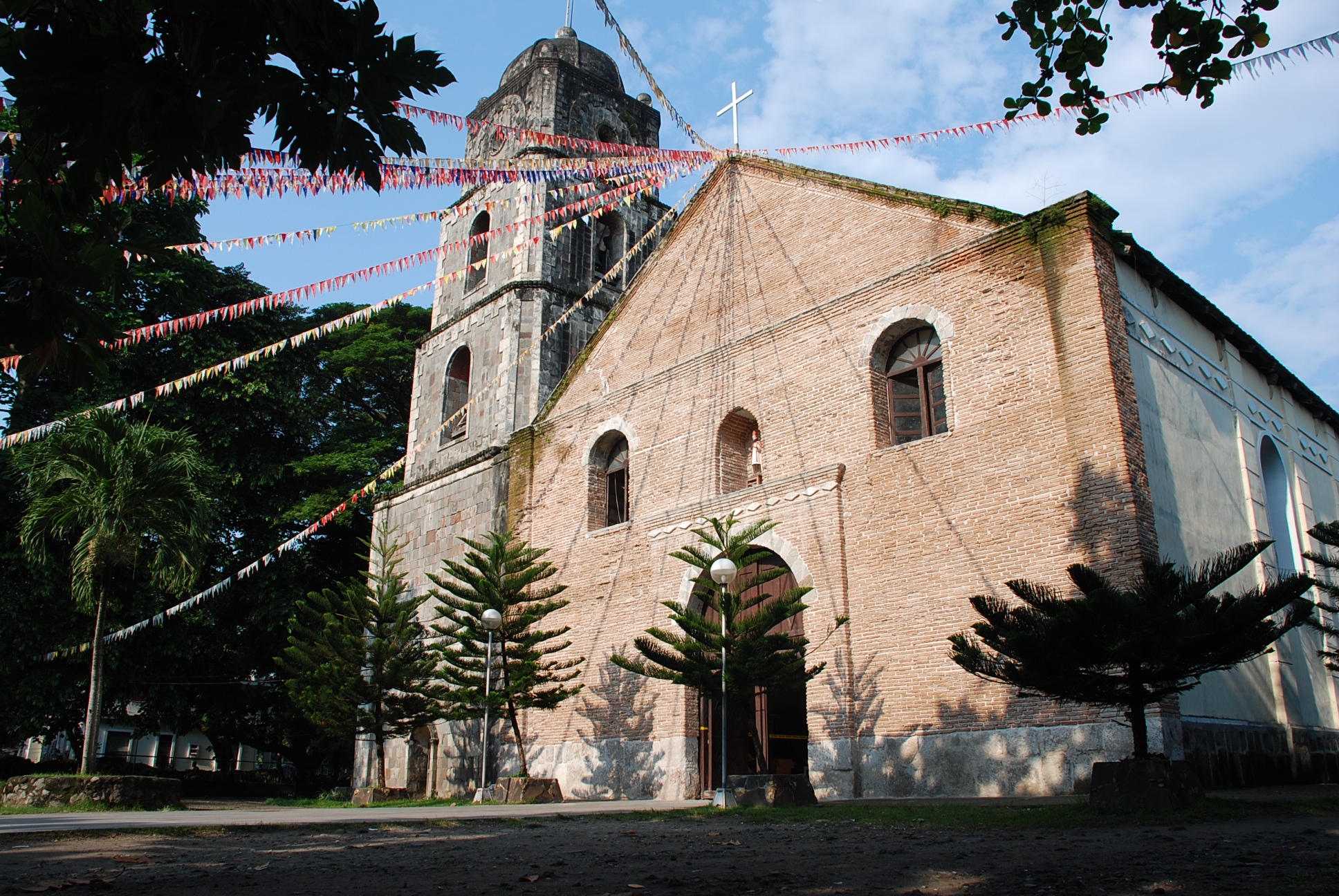 St. Augustine Church, Bacong, Negros Oriental, Philippines